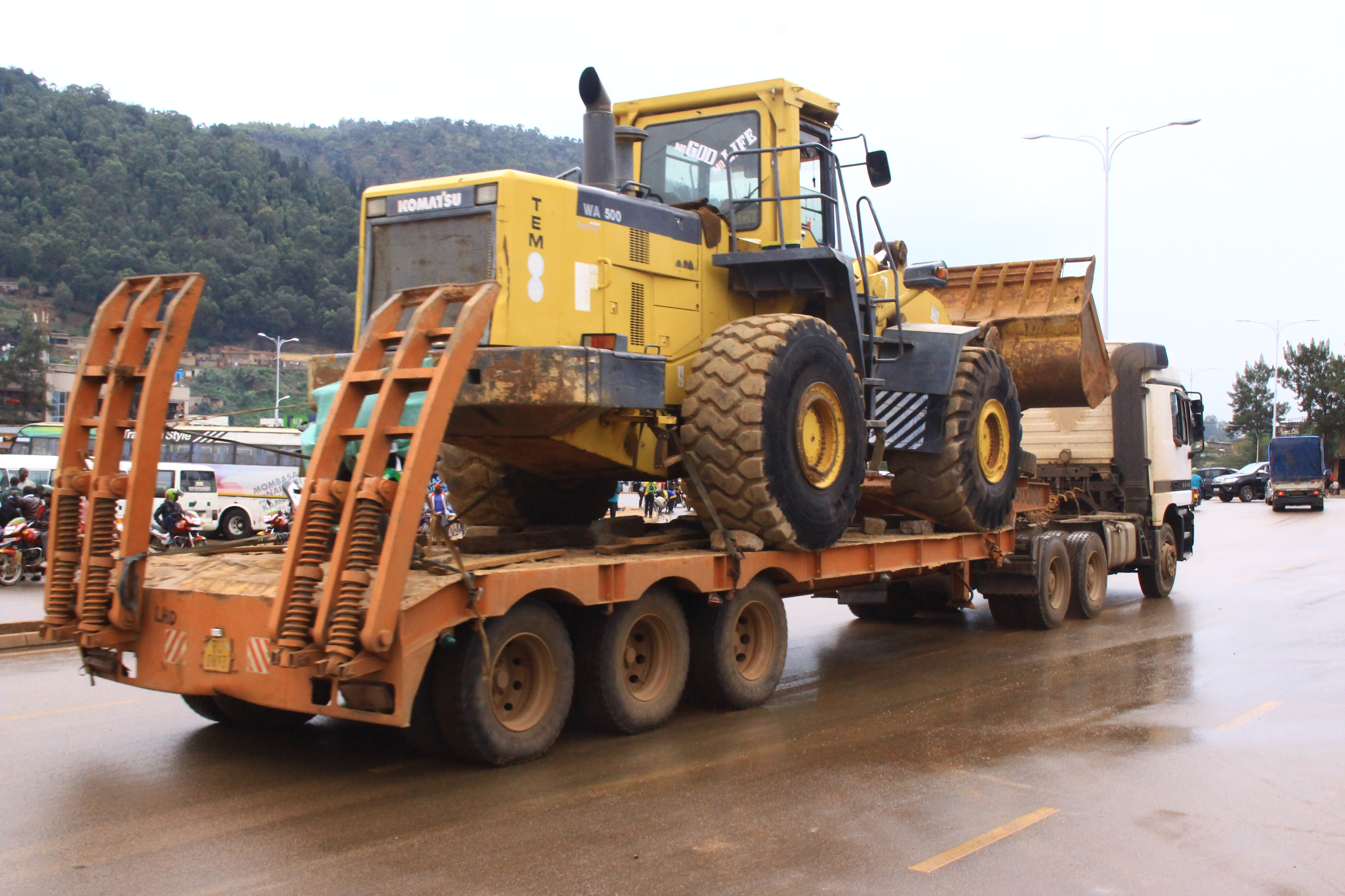 A big truck transporting the heavy caterpillar This is an image with the theme "Africa on the Move or Transport" from: Rwanda